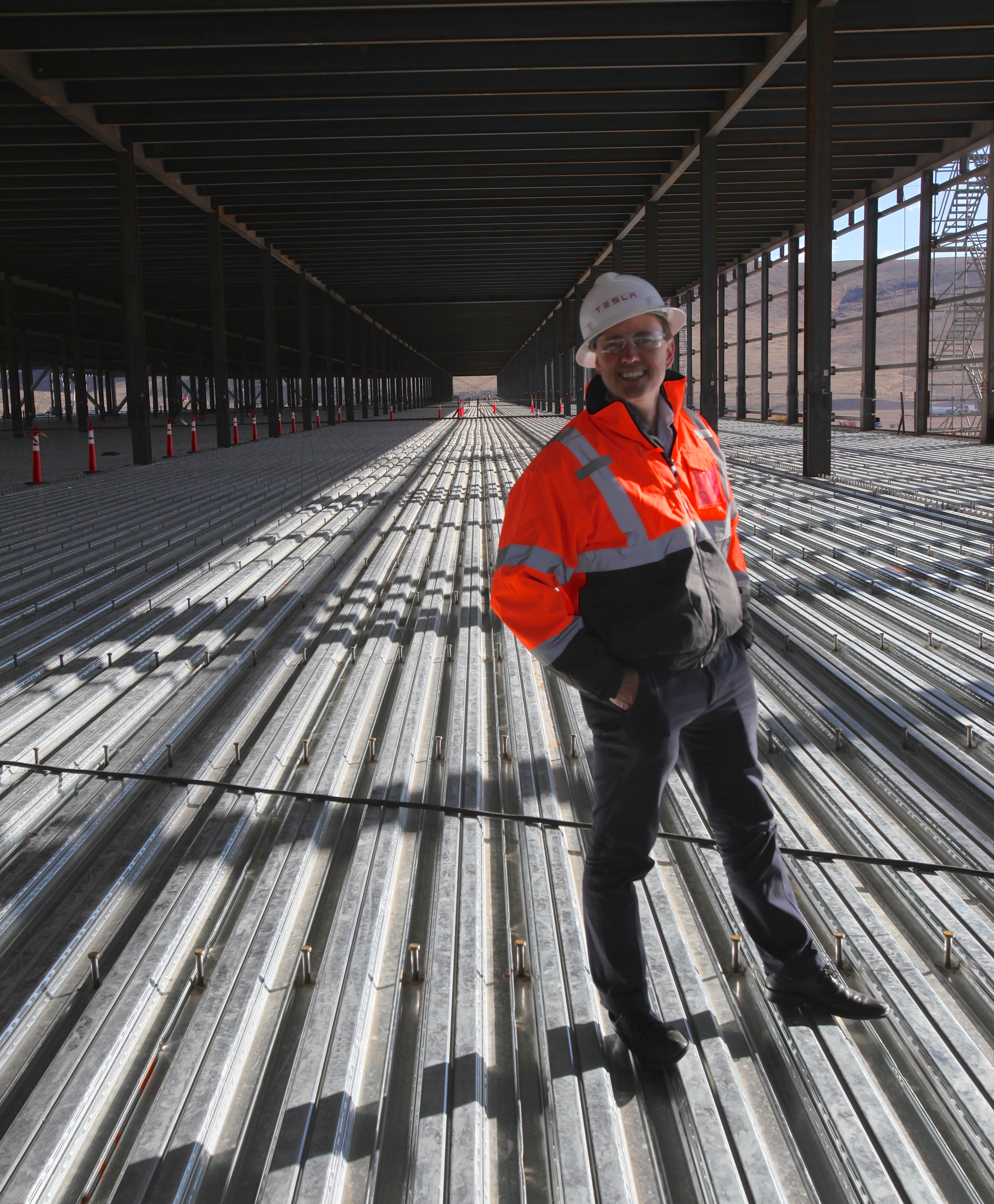 phase 1 of gigafactory 1 under construction, to manufacture Li-Ion batteries in Nevada. When complete, it will be the largest footprint manufacturing building in the world. The scale can be deceiving; this two-story structure is 72 feet (22 m) tall.